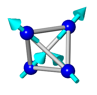 Tetrahedron showing four magnetic moments (light blue arrows) in ice-rule stae